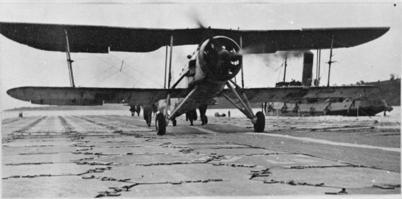 The Royal Navy during the Second World War A Fairey Swordfish landing on the "Lily"floating air strip. The "Lily"floating air strip was invented by Mr R M Hamilton. His "Swiss roll" floating roadway was used for convoy transport from ship to shore during the Normandy landings at Avranches in 1944. Note depression in the surface under the weight of the plane.